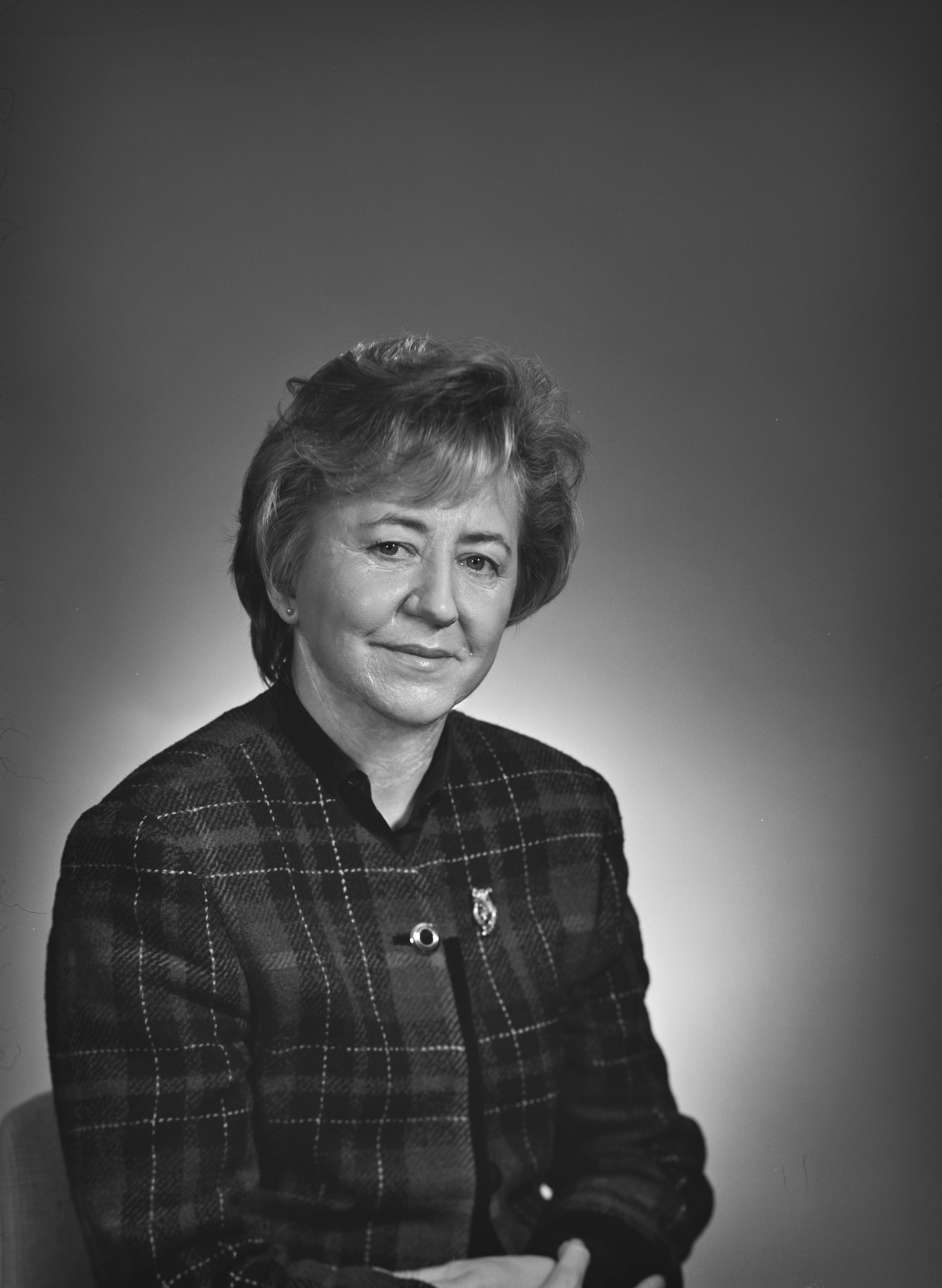 Photograph of the Finnish historian Päivi Setälä (1943–2014).